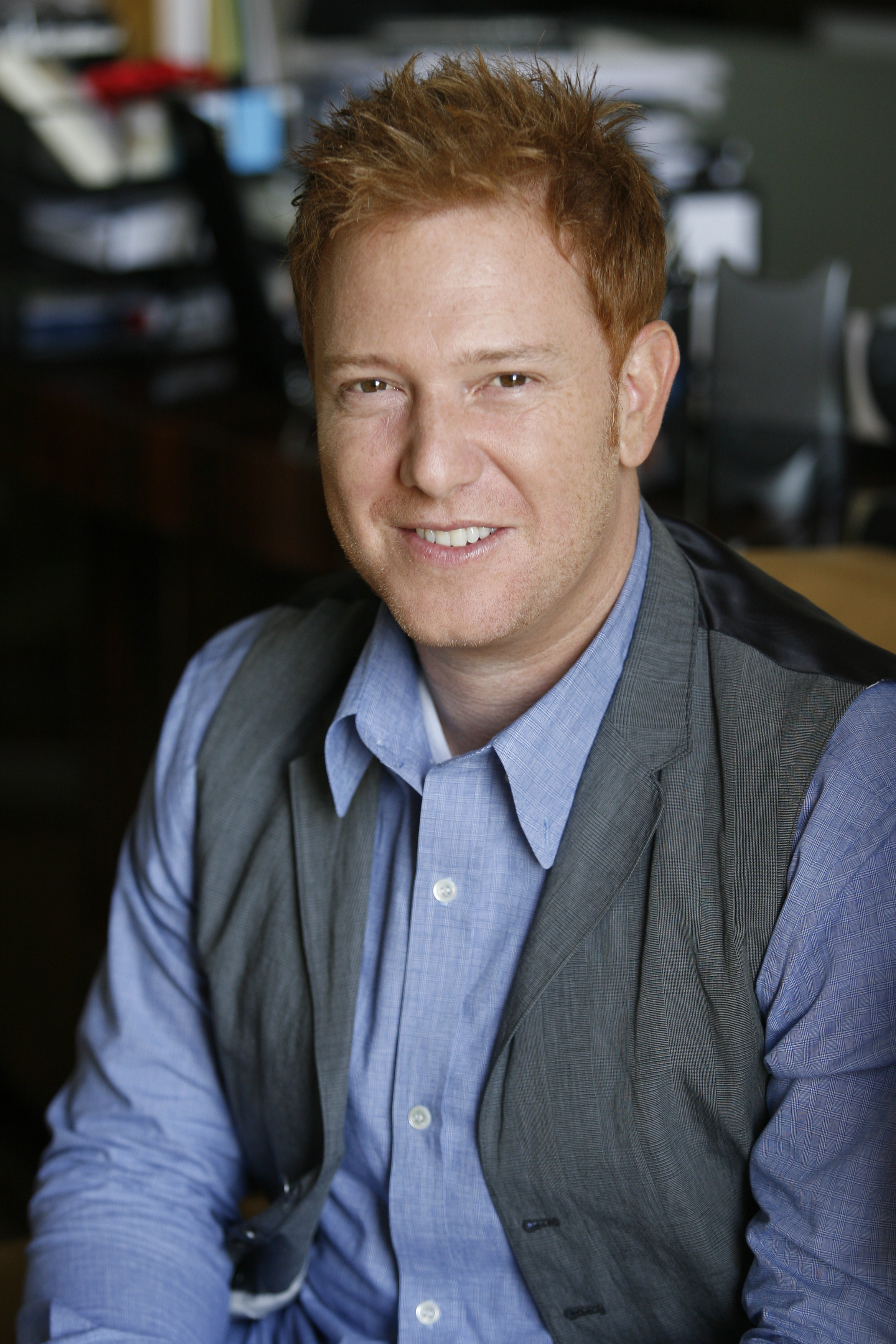 Ryan Kavanaugh photographed by Alex Berliner at the Relativity Media offices.